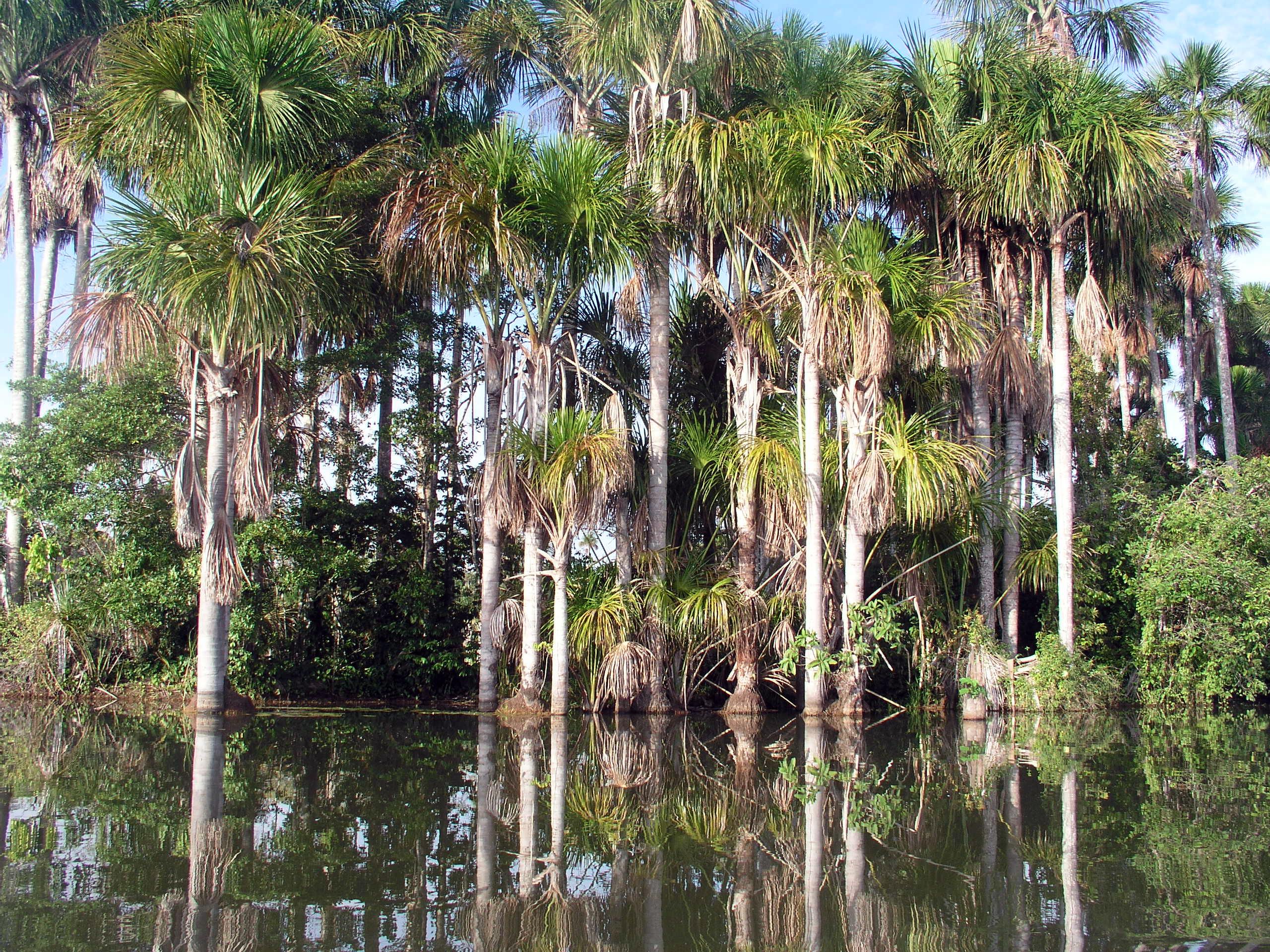 Puerto Maldonado, Lago Sandoval, Peru. The photo was taken in the end of July 2004 by Håkan Svensson (Xauxa)